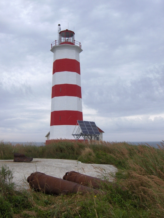 Sambro Island Lighthouse, near Halifax, Nova Scotia, the oldest surviving lighthouse in North and South America. Cannons in the foreground were once used as fog warnings.